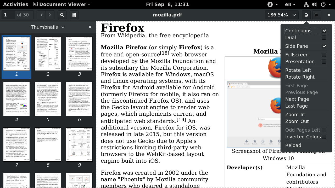 Evince v3.22, with adwaita-dark theme